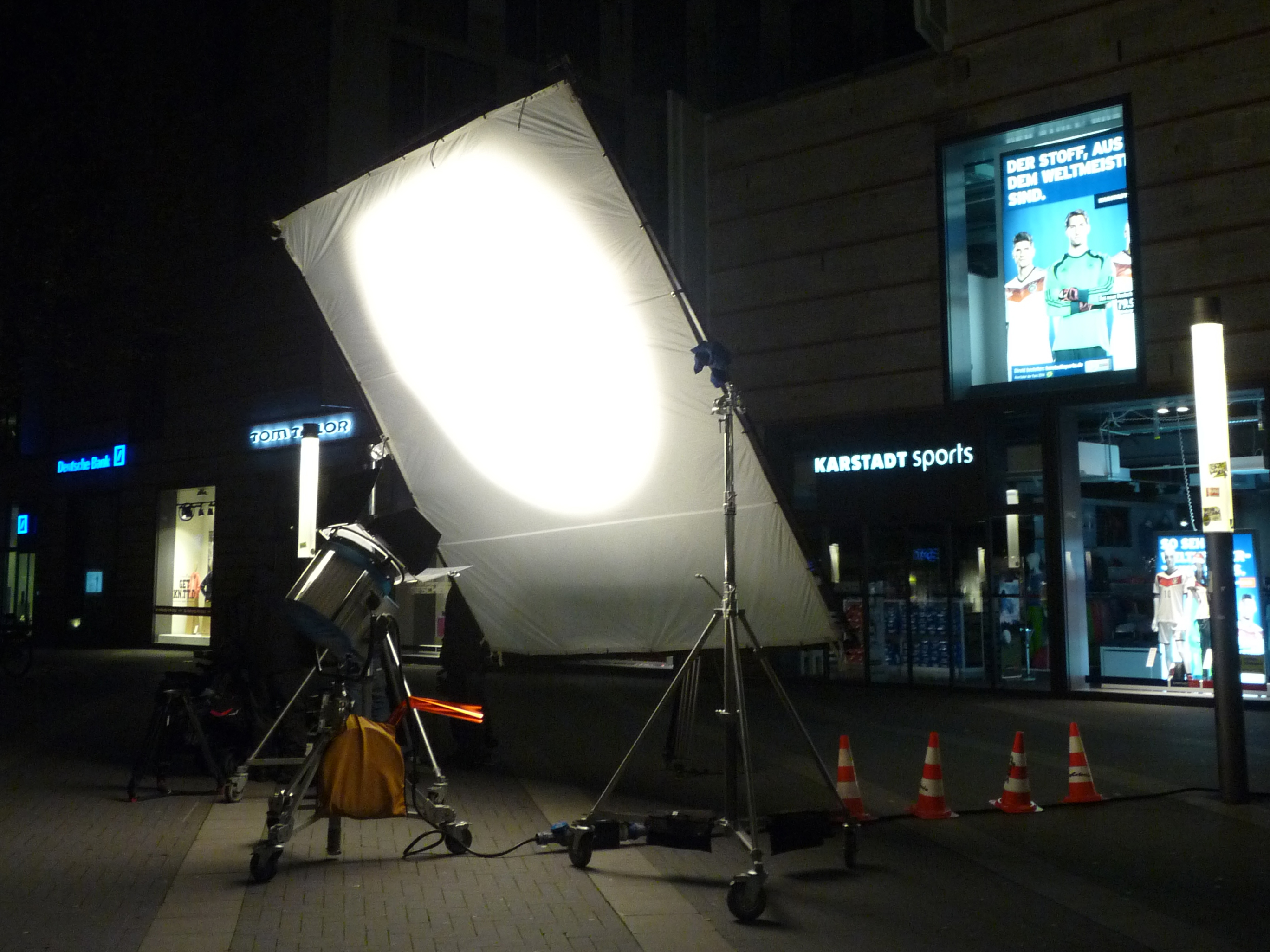 shooting of episode Der Hammer of TV series Tatort at Stubengasse in Münster